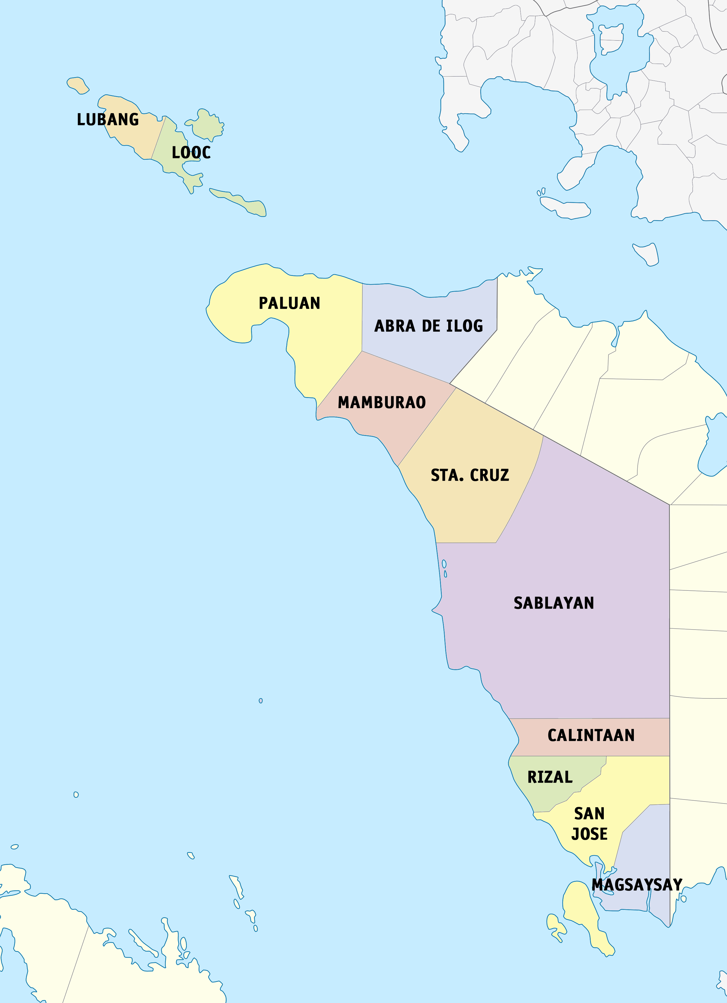 Political map of Occidental Mindoro Province — on western Mindoro island, the Philippines.